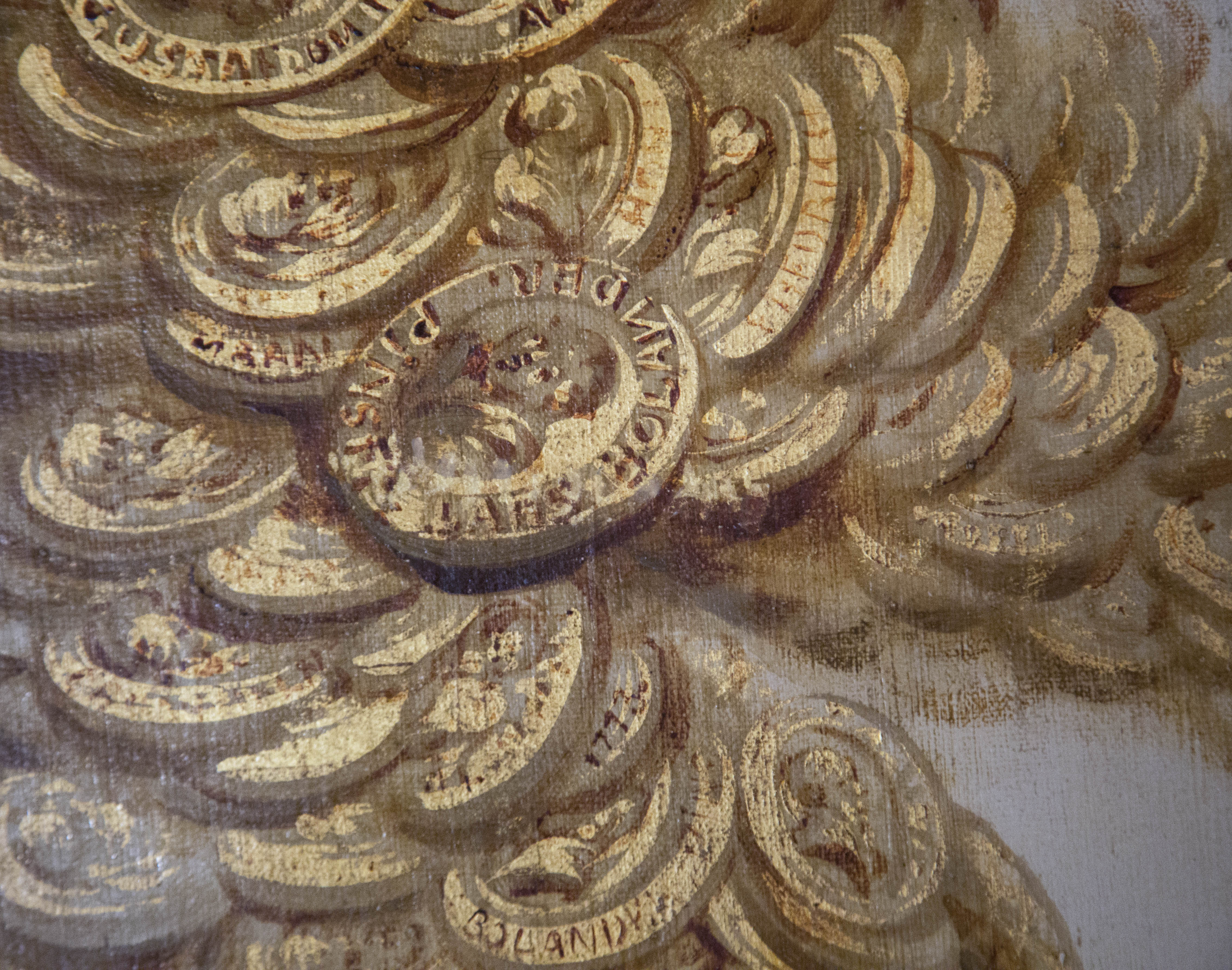 Artist Lars Bolander signature in painting from 1773, Södra Banco, Stockholm, Sweden.